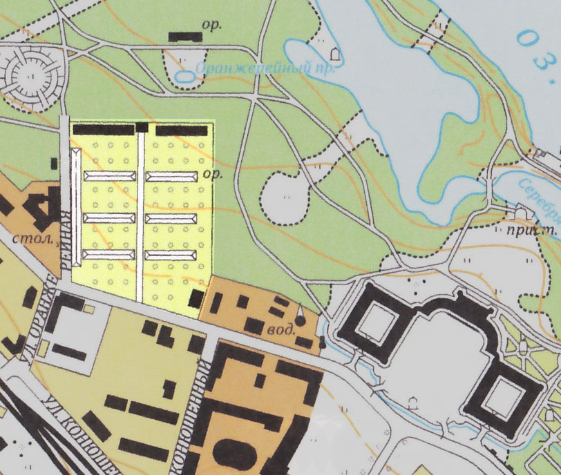 Palace greenhouses on the territory of Palace park, reconstruction of 1939 map